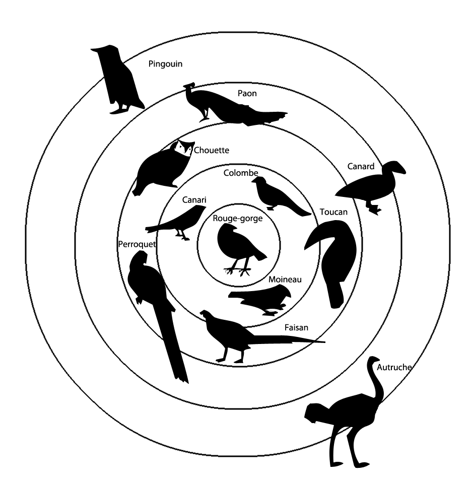 D'après Eleanor Rosch, "Cognitive Representations of Semantic Categories"; Journal of Experimental Psychology, 1975 (104:3) et Jean Atchinson, Words in the Mind: An Introduction to the Mental Lexicon (2004).